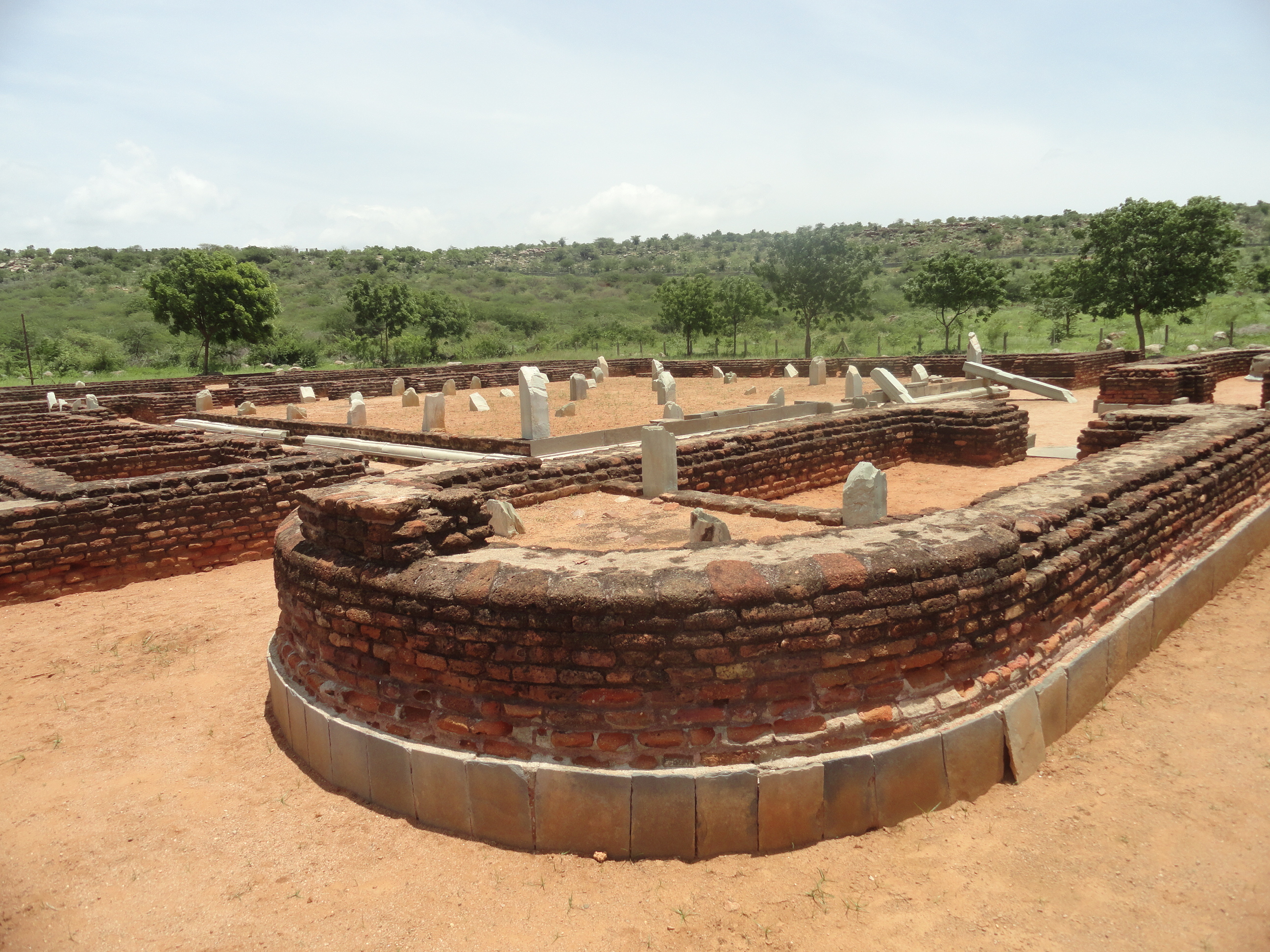 అనుపులో నాగార్జునుని కాలంనాటి కట్టడాలు...10